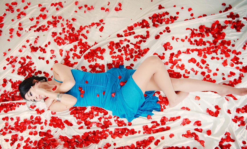 Gaelreorihyu chwalyounghoe in ...^^ Ttatteunhan photo of a few hours ago ... Good management bodies are so hot ... ...^^ (Google translate)